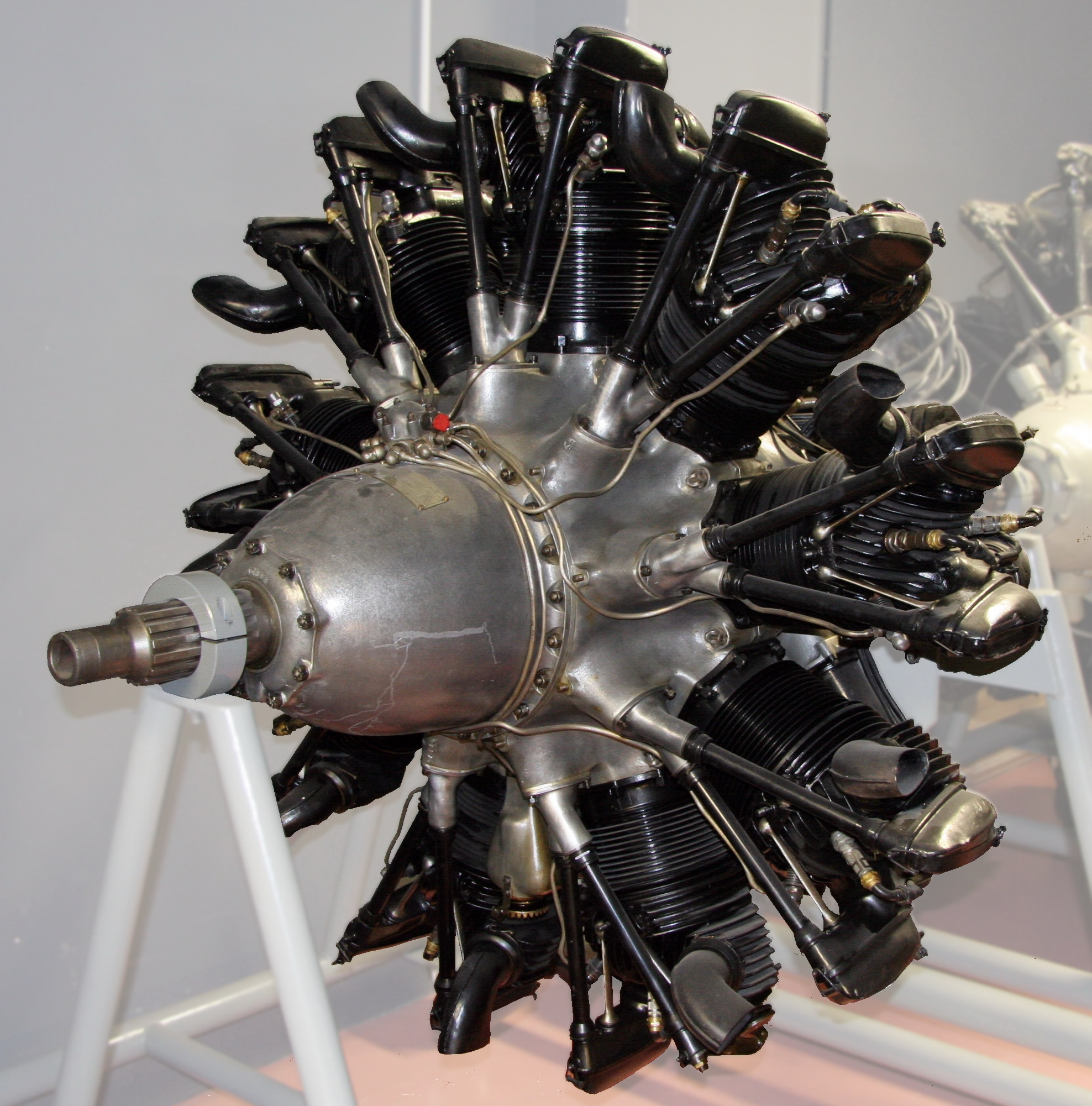 GnomeRhone9K